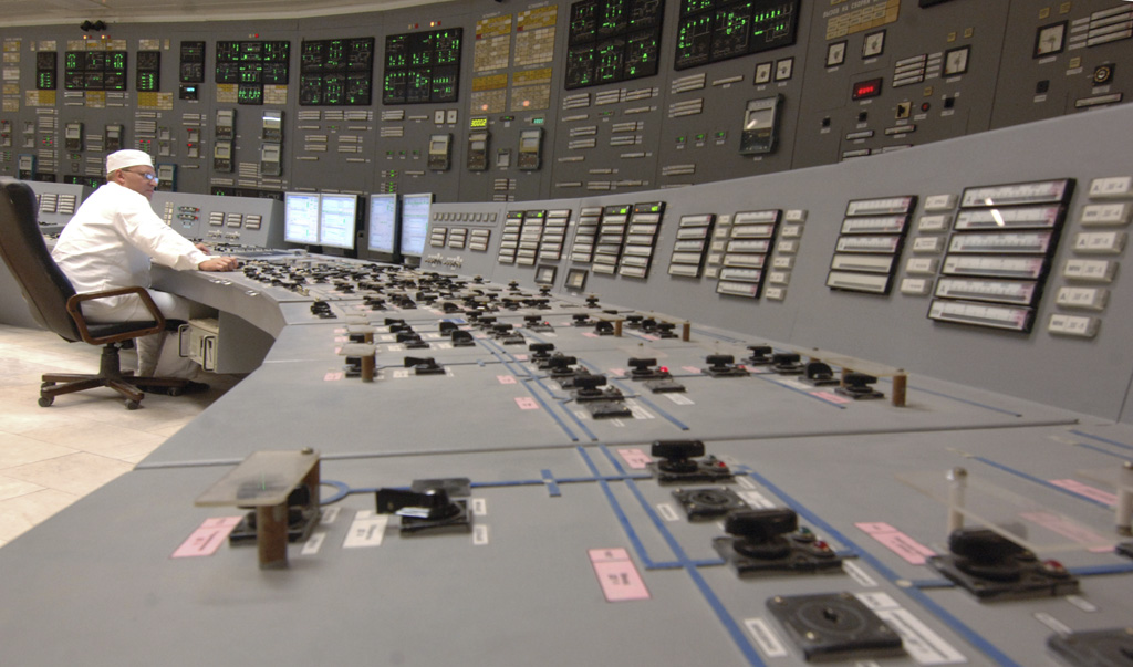 “Kursk Nuclear Power Plant”. A power-generating unit control panel at Kursk Nuclear Power Plant in the town of Kurchatov.